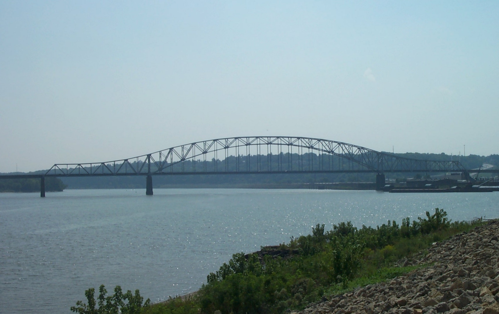 Julien_Dubuque_Bridge, taken from upstream, Iowa side of Mississippi River, Dubuque, Iowa